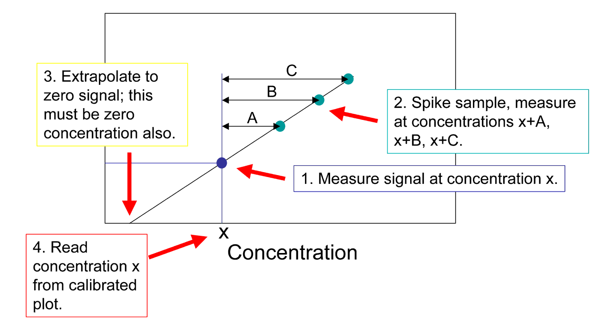 Schematic representation of the analysis method of standard addition.